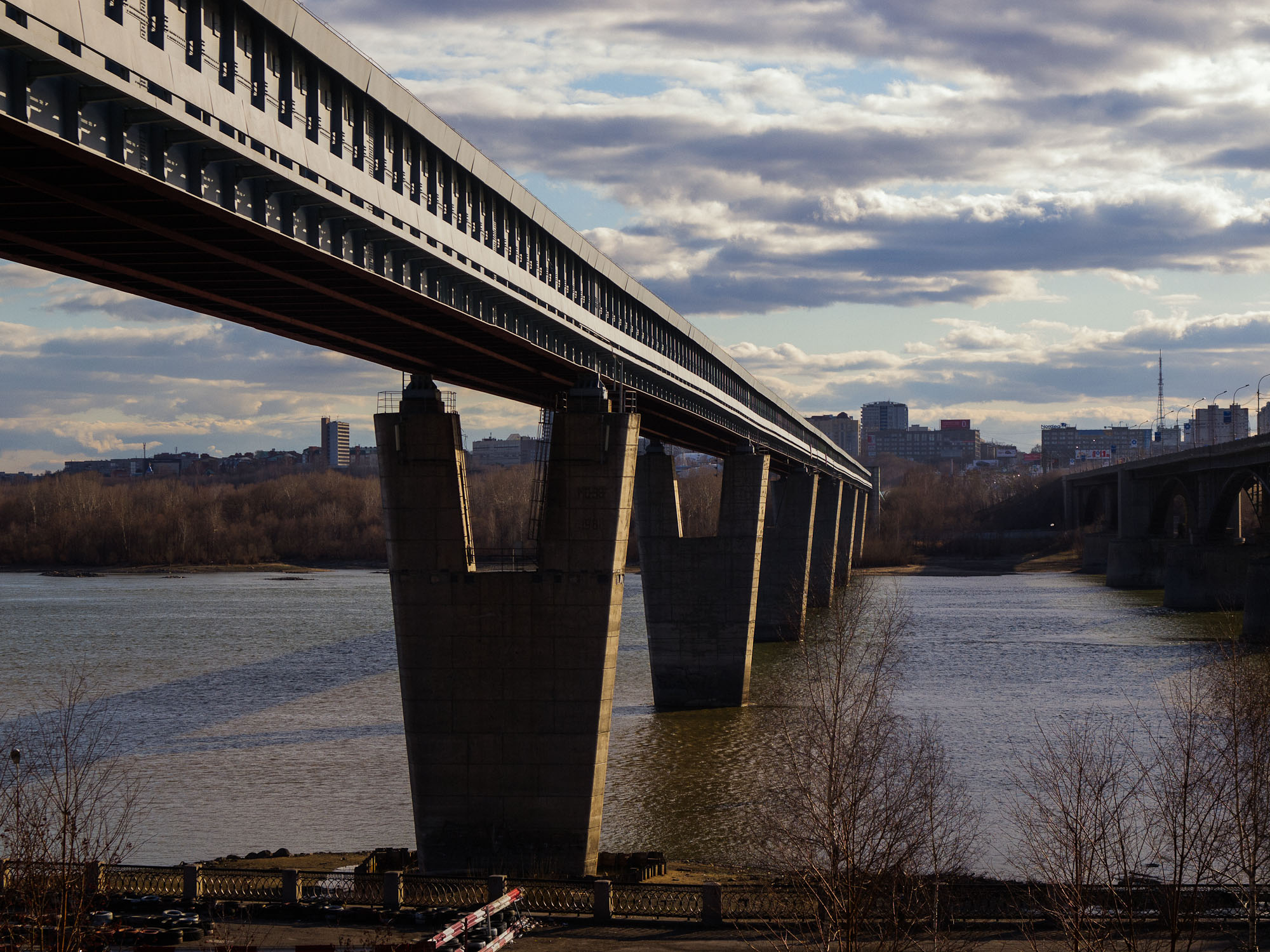 Bridges thru Ob' river Novosibirsk Siberia 17.04.2012